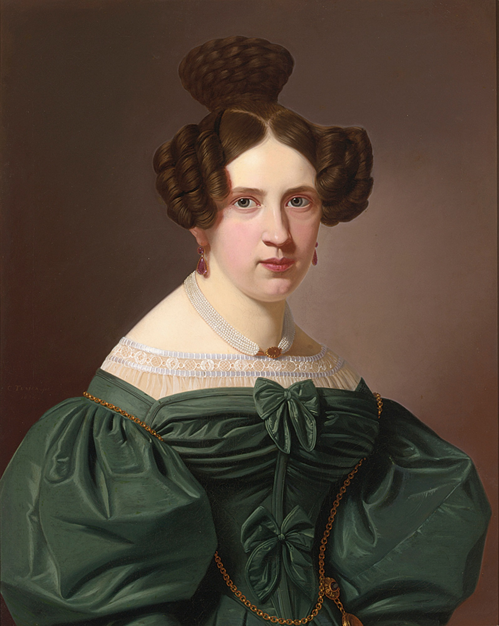 Emilie Feustell, wearing a green lace lined dress, by Christian Tunica